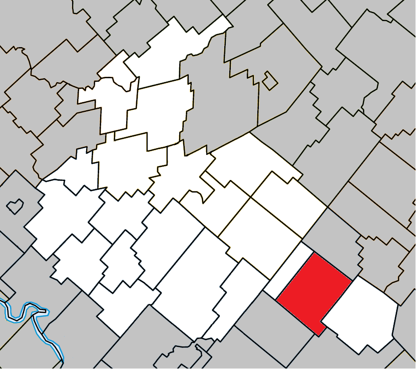 Location of Ham-Nord, Quebec within Arthabaska Regional County Municipality.